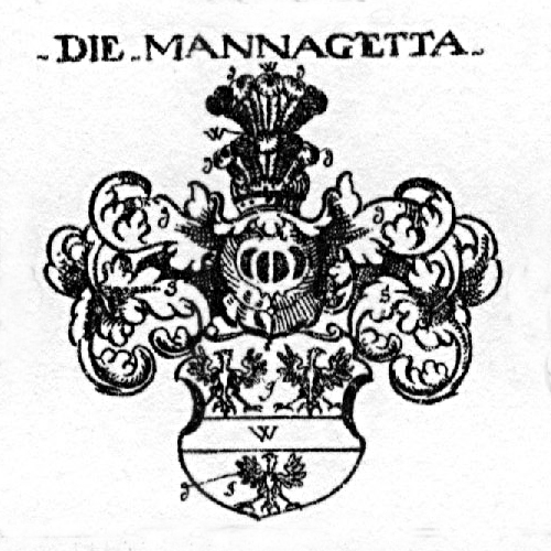 Coat of Arms of Mannagetta